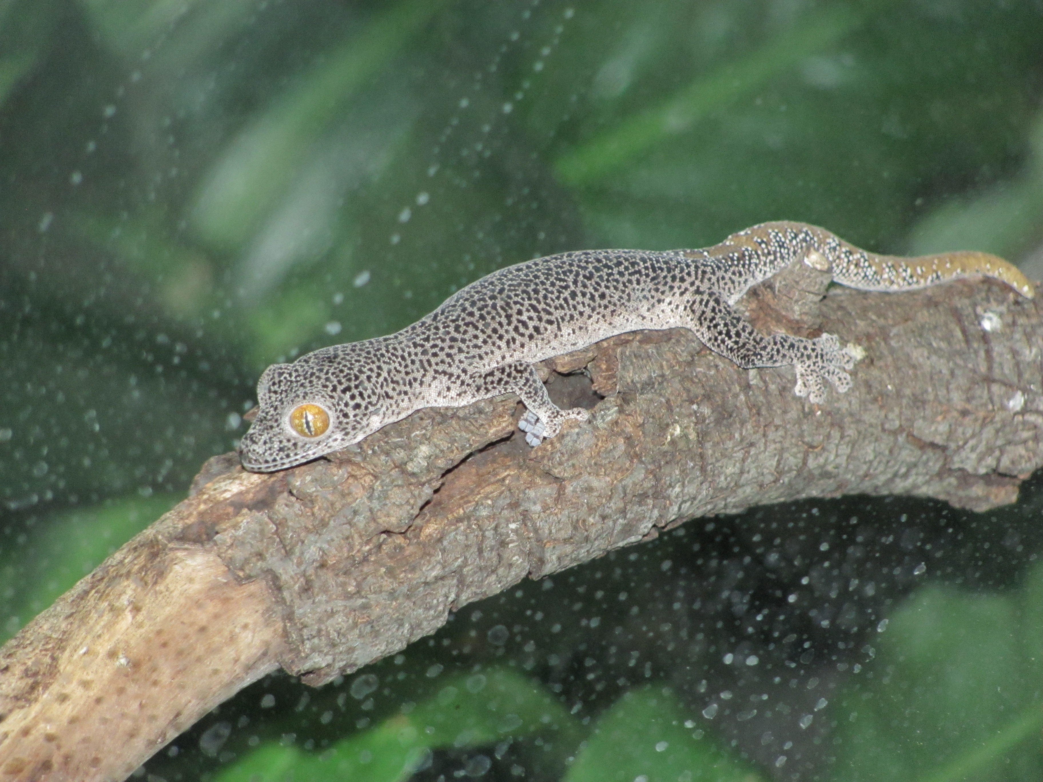 Golden-tailed Gecko (Strophurus taenicauda). Taken at Taronga Zoo, located at Sydney NSW Australia. This photograph is licensed under a Creative Commons Attribution-ShareAlike 2.0 Generic License.